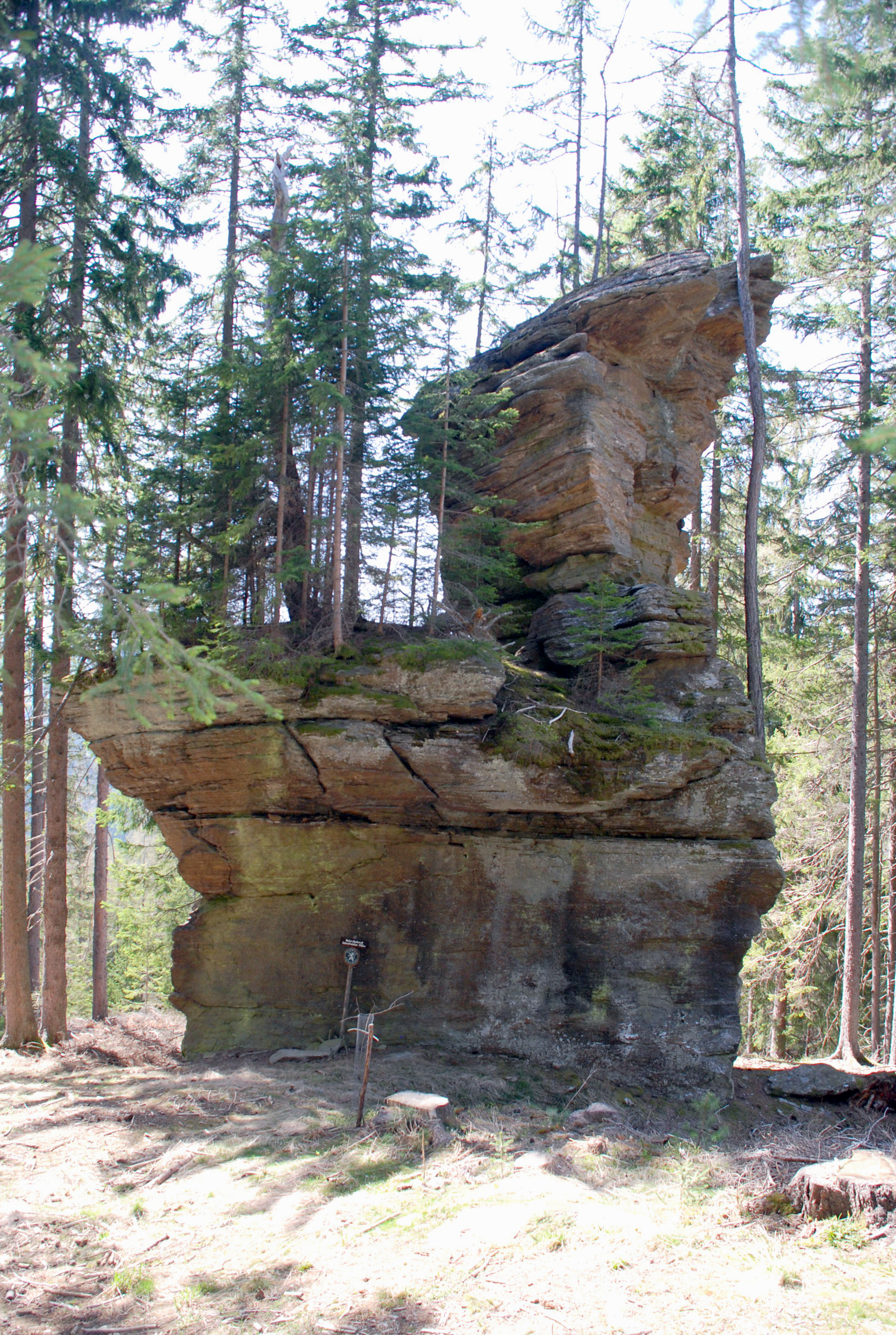 Felsturm (Stapel aus Plattengneis) „Schrattelofen“, Naturdenkmal in KG Sallegg, Gemeinde Bad Gams This media shows the natural monument in Styria with the ID 411. (other)